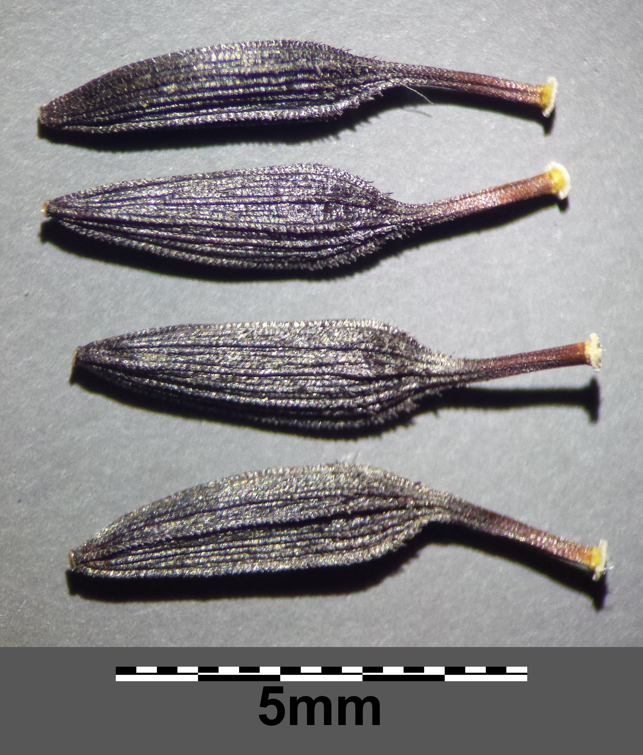 Achenes Taxonym: Lactuca quercina ss Fischer et al. EfÖLS 2008 ISBN 978-3-85474-187-9 Location: Donauauen near Mühlleiten, district Gänserndorf, Lower Austria - ca. 150 m a.s.l. Habitat: border of a wood